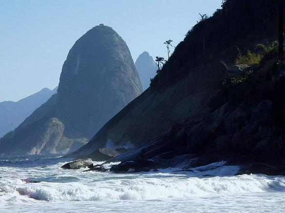 The Zeila coastline is situated in the Awdal region of Somalia THIS IS NOT SOMALILAND, BUT THE "SUGARLOAF" IN RIO DE JANEIRO The factual accuracy of this description or the file name is disputed. Reason: see Commons:Help_desk#Somalia